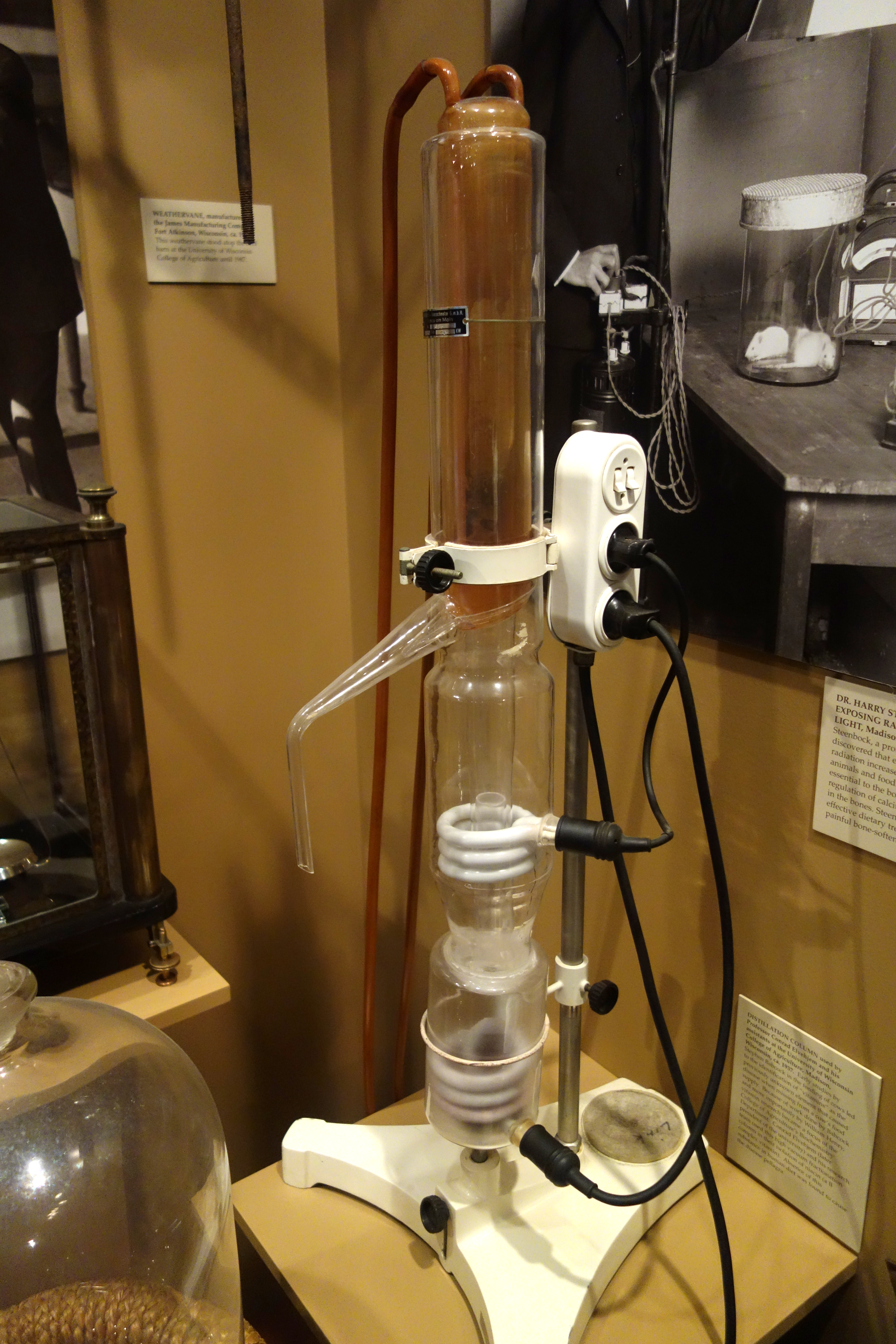 Exhibit in the Wisconsin Historical Museum, Madison, Wisconsin, USA. This item is old enough so that it is in the public domain.